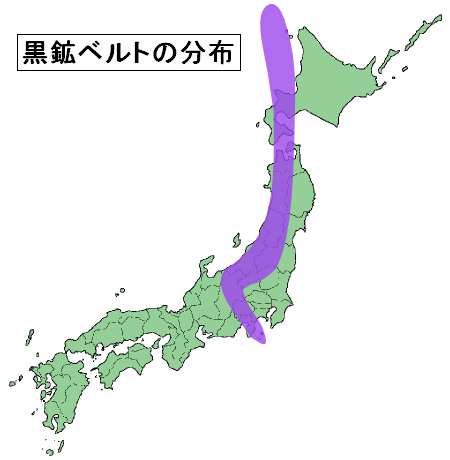 Black ore deposits in Japan